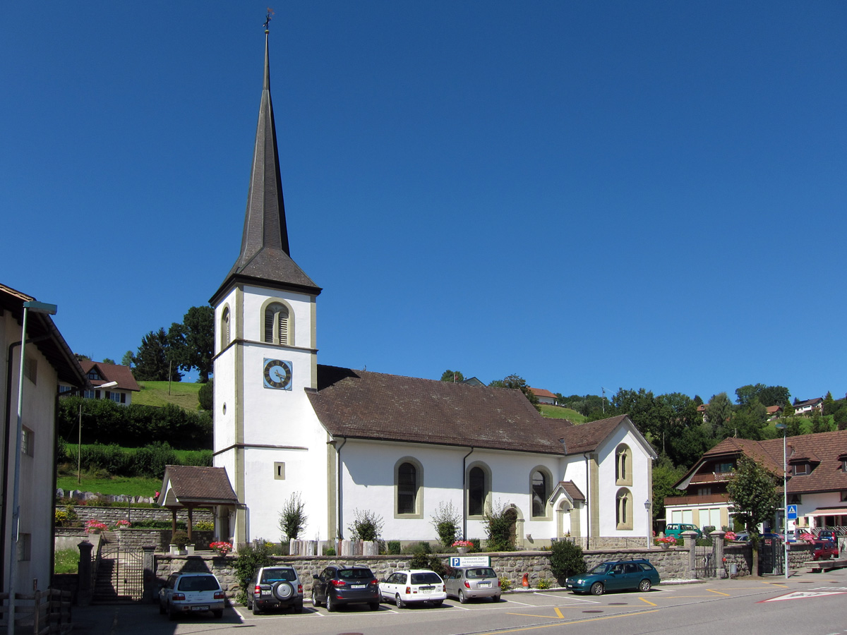 Church of Plasselb, Canton Fribourg, Switzerland